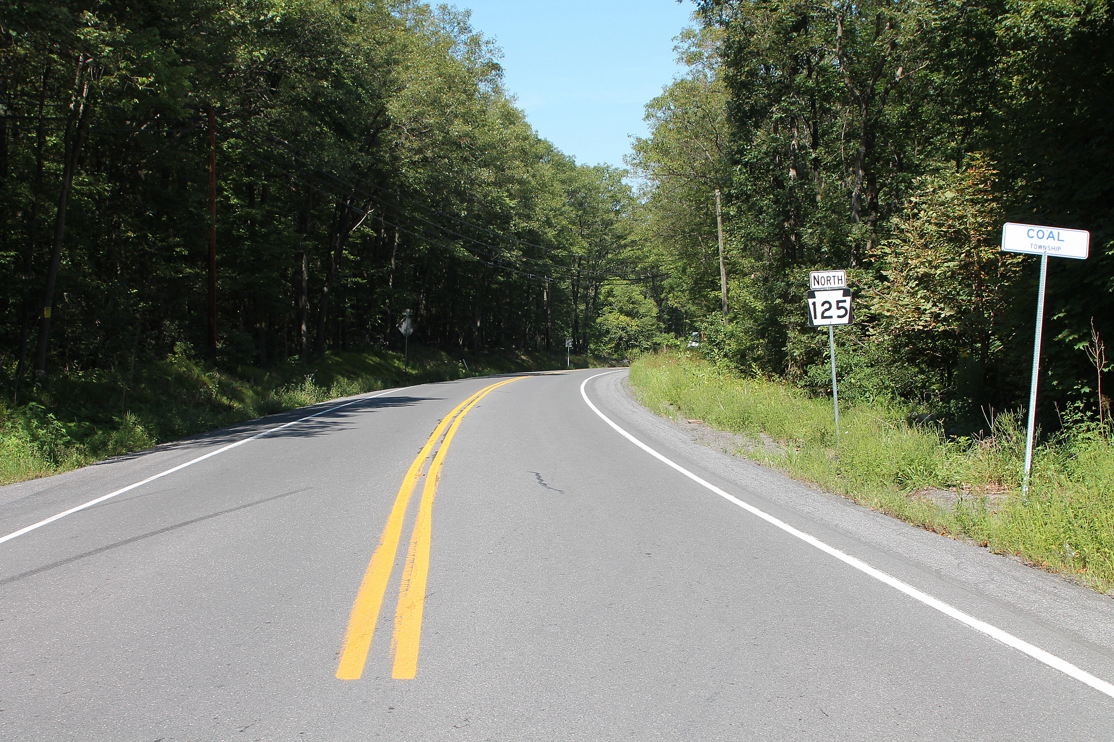 Pennsylvania Route 125 northbound on the border of Coal Township, Northumberland County